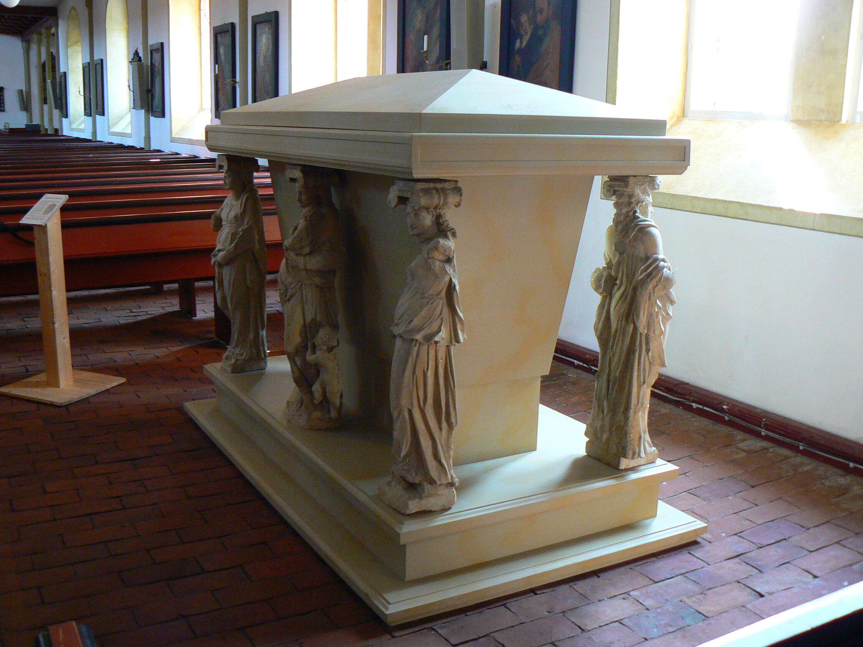 Walpurgis-Sarkophag (wood, 1997) with Sandstein-Karyatiden (1586) in St. Magnus Kirche in Esens/Germany